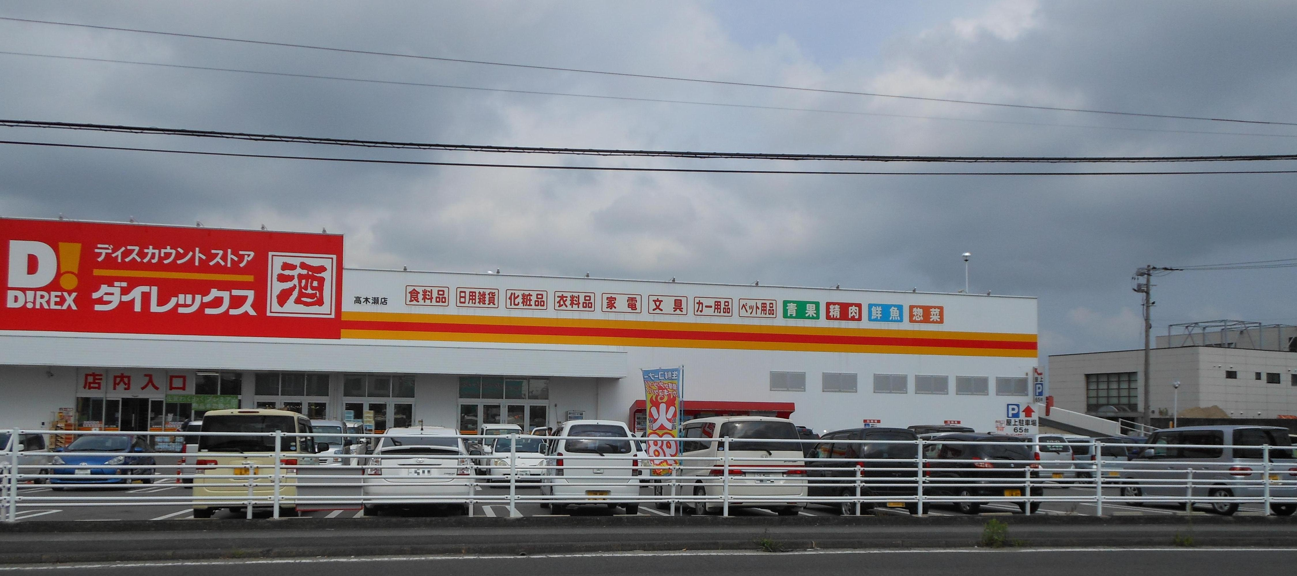 Store and headquarters of DIREX Corporation, a discount store chain of Saga prefecture, Japan.